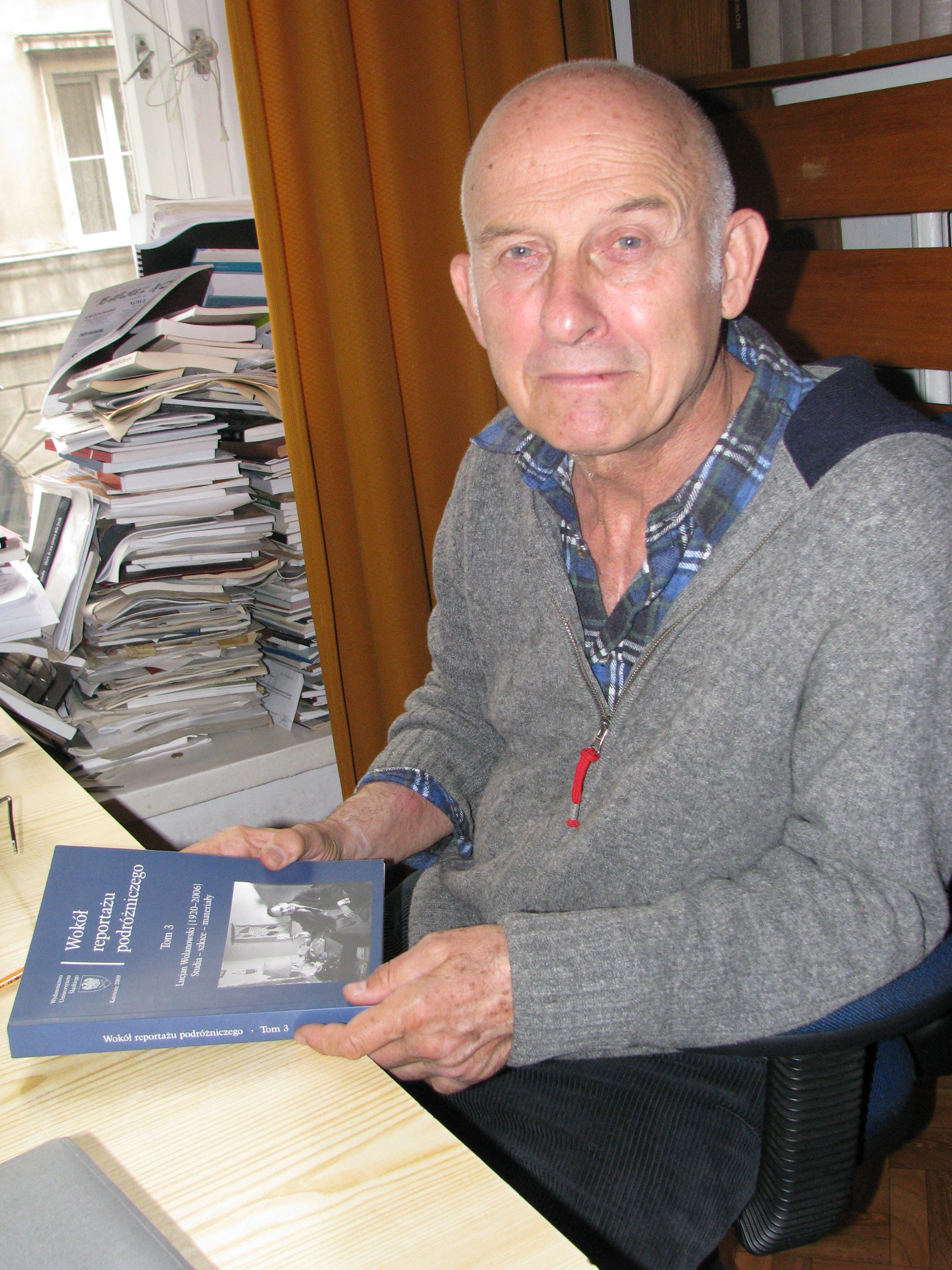 Tomasz Łubieński (b. April 18, 1938 in Warsaw, Poland) - Polish writer, essayist and publicist. He lives in Warsaw, Poland